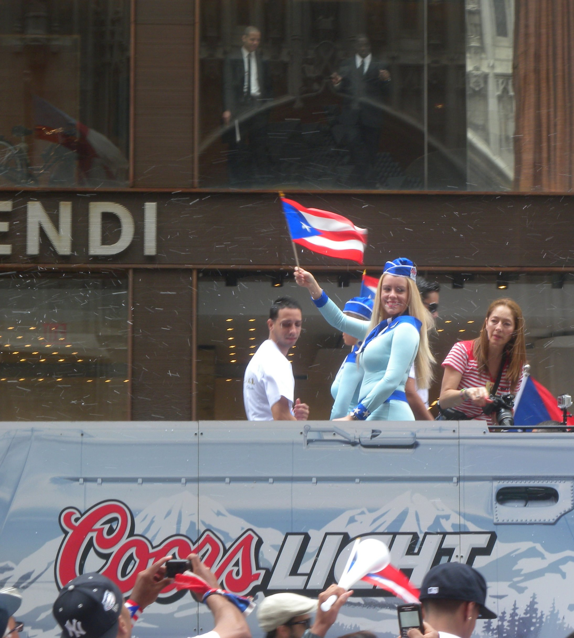 Looking east across 5th Avenue, north of 53d Street, at Coors float of Puerto Rican Day Parade on a cloudy day.